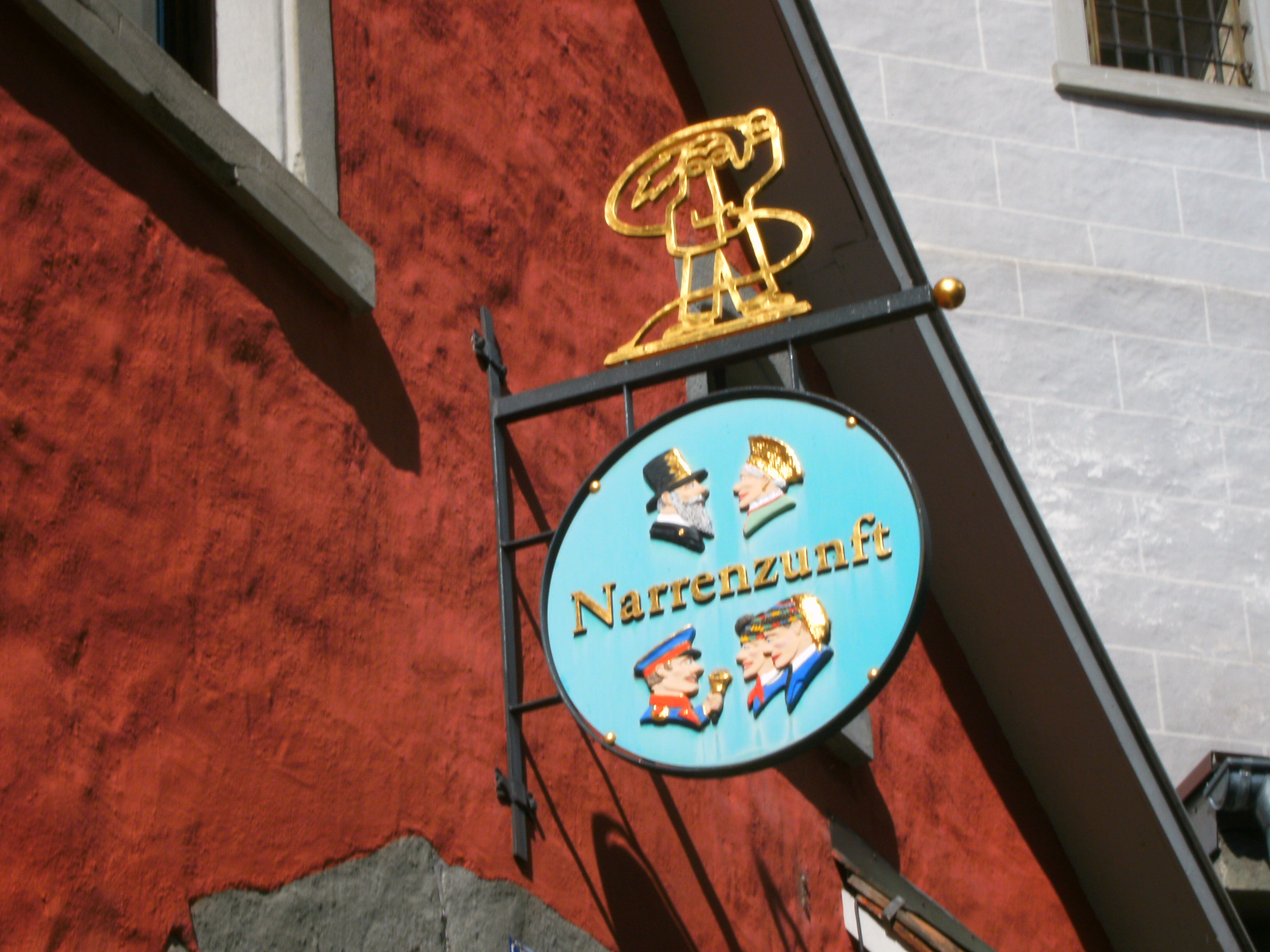 Überlingen, Germany: Sign at the building of the Narrenzunft Überlingen (carnival society).